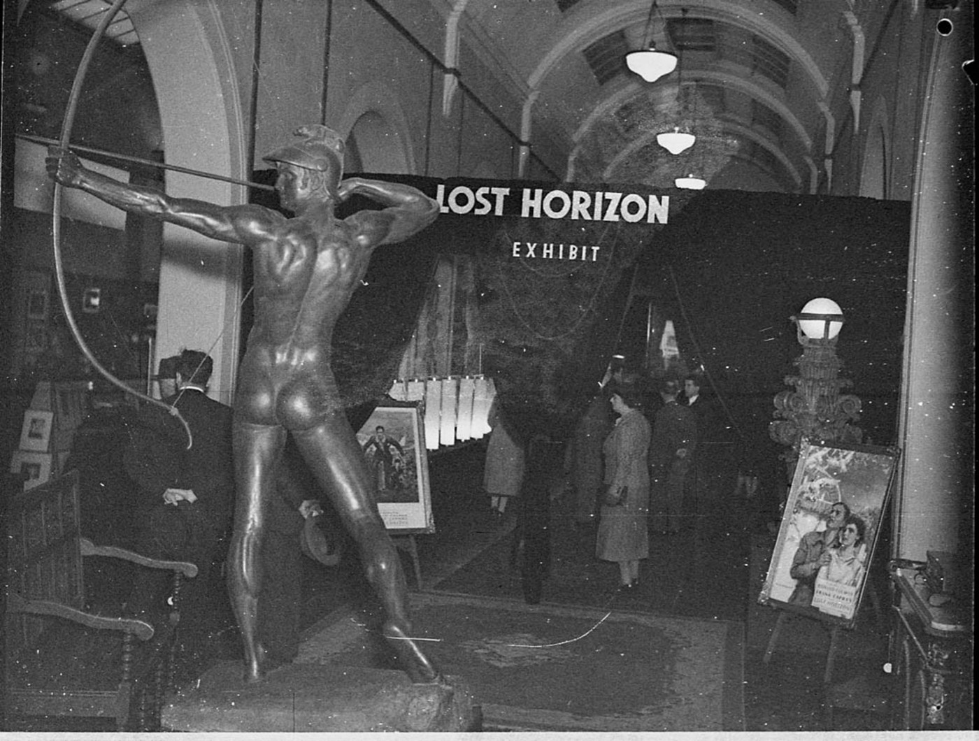 "Lost Horizon" exhibit, Anthony Horderns